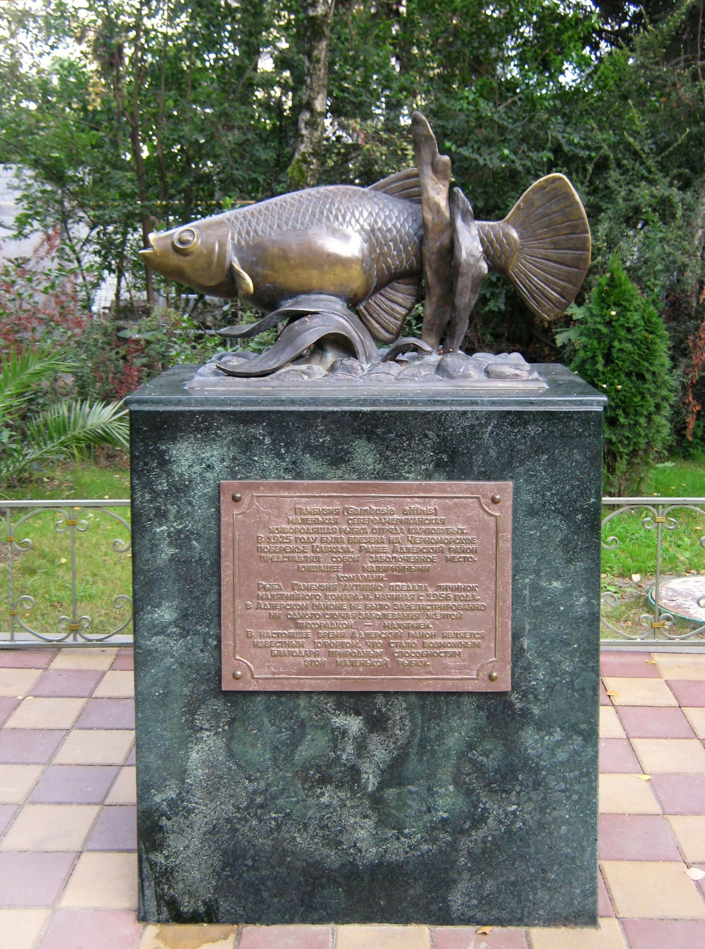 Monument of the Fish Gambusia afinis - small North American fish. In 1925 the fish was introduced to Kaukaz Black Sea coast. Before, Adler (Soči) was swampy place with anopheles mosquitos in it. Fish feeded mosquitos larvas. As a result, malaria was not registred in Adler since 1956.